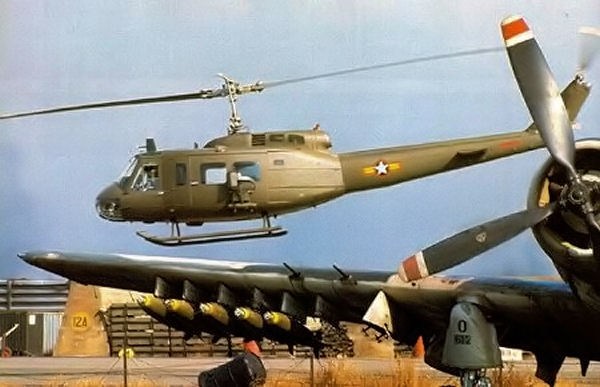 A South Vietnamese Air Force Bell UH-1D Huey helicopter and Douglas A-1 Skyraider (probably A-1H 139612), at Da Nang Air Base.